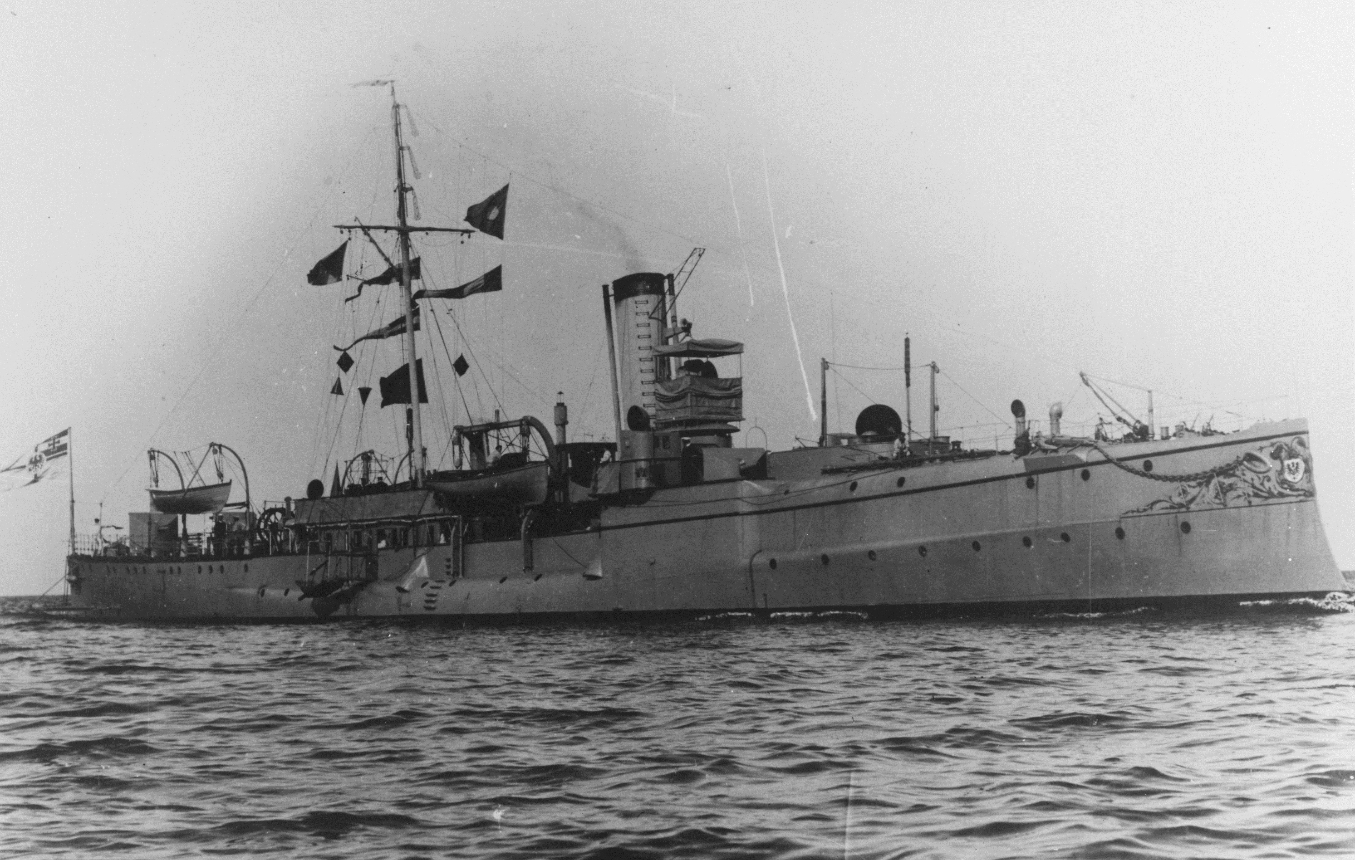 German aviso SMS Wacht photographed in 1899, after her funnel was raised.